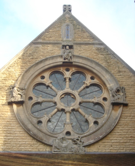 Rose window in the west wall of the former parish church of St Michael and All Angels, Lowfield Heath, Crawley, West Sussex, England